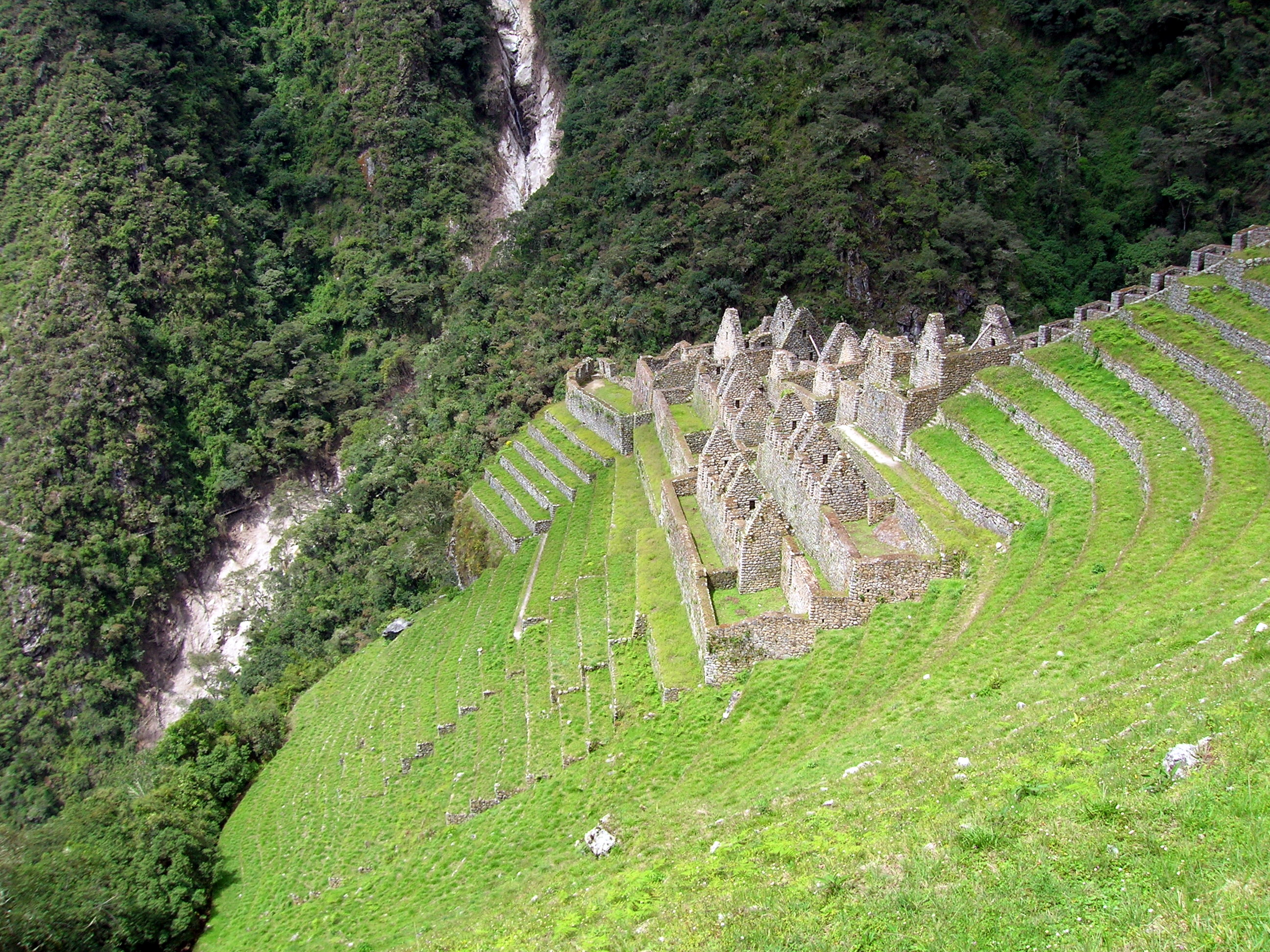 Author: Matt Austin. Picture Taken: 23rd April 2006. Uploader: Sludge321